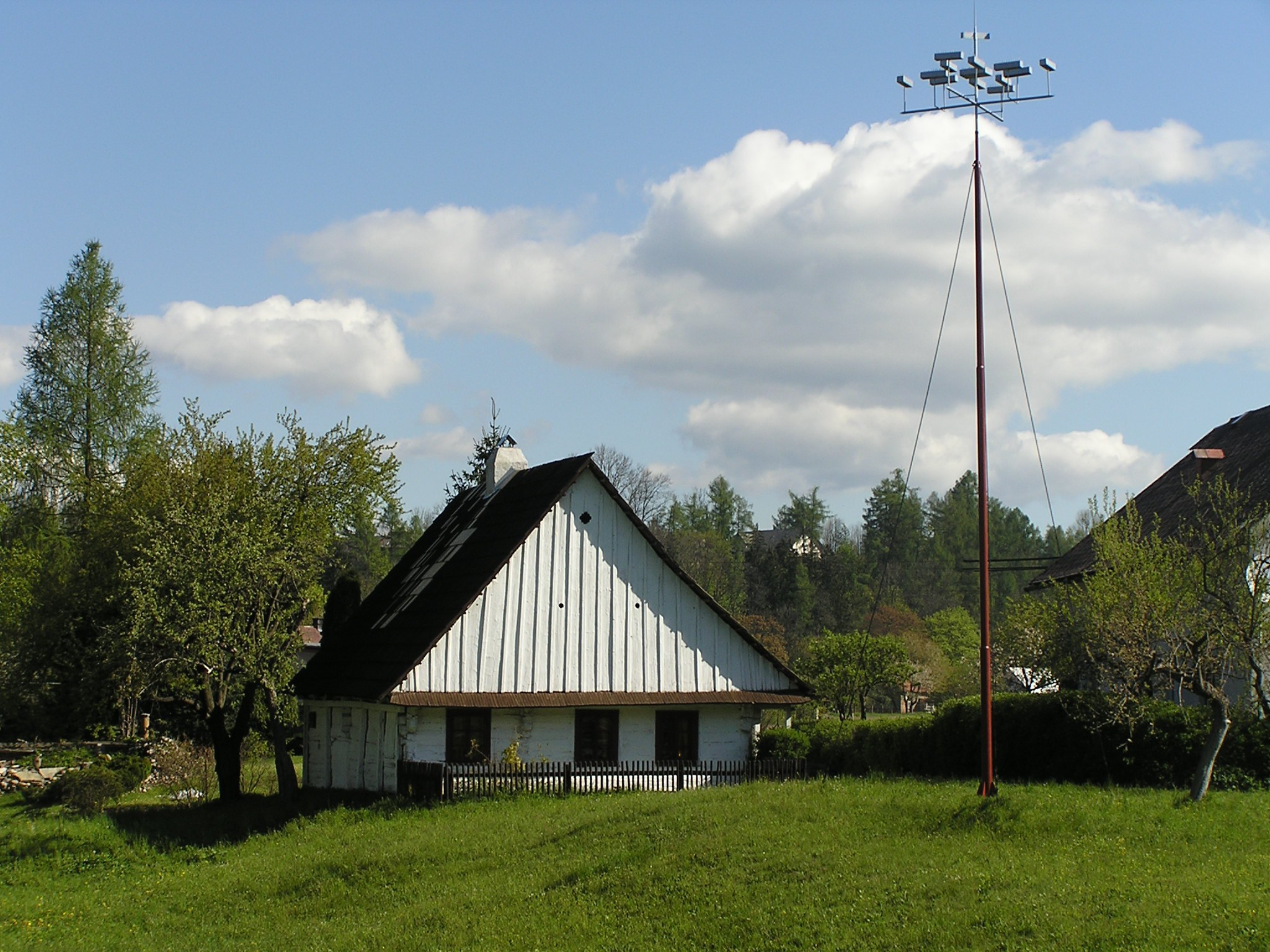 Family house of Prokop Diviš.